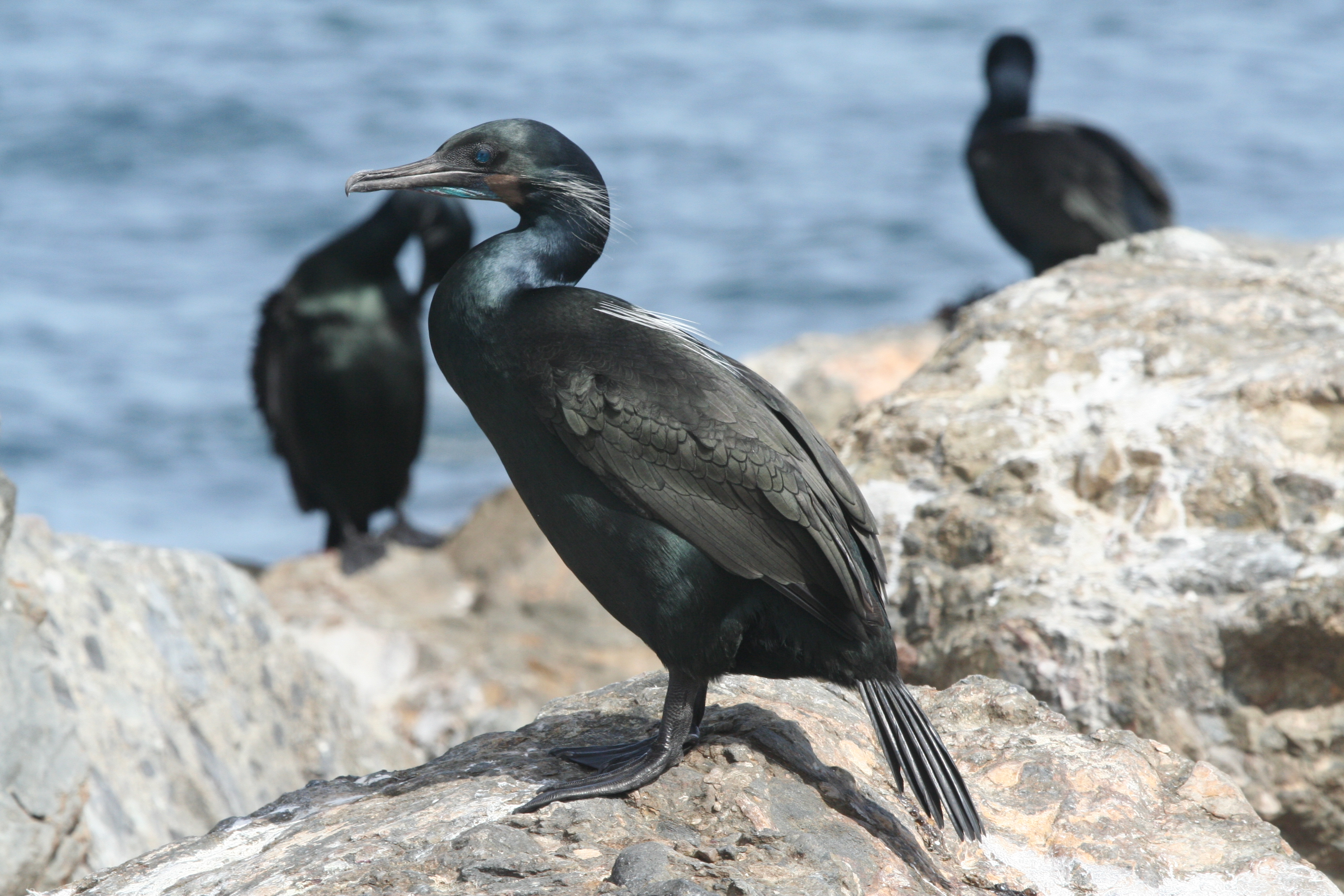 Photographed by and copyright of (c) David Corby (User:Miskatonic, uploader) 2006 A Brandt's Cormorant in Monterey, California